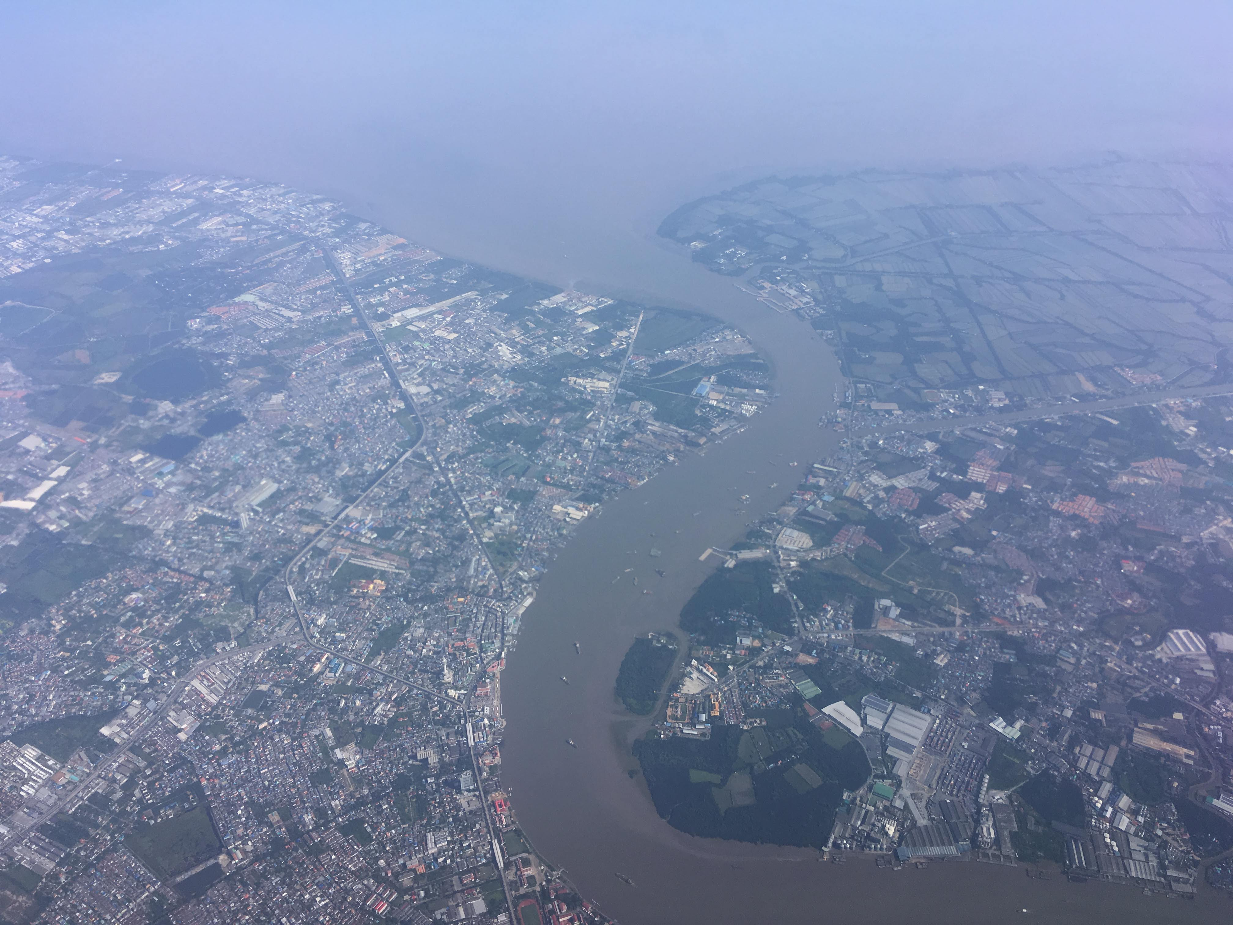 The mouth of Chao Phraya in Samut Prakan Province seen from a plane going from Don Muang to Ubon Ratchathani.